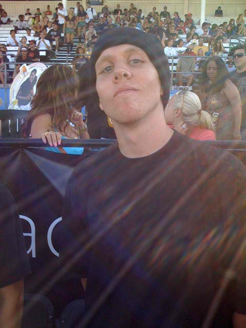 Stand Up comedian Donovan Strain attending the Maloof Money Cup